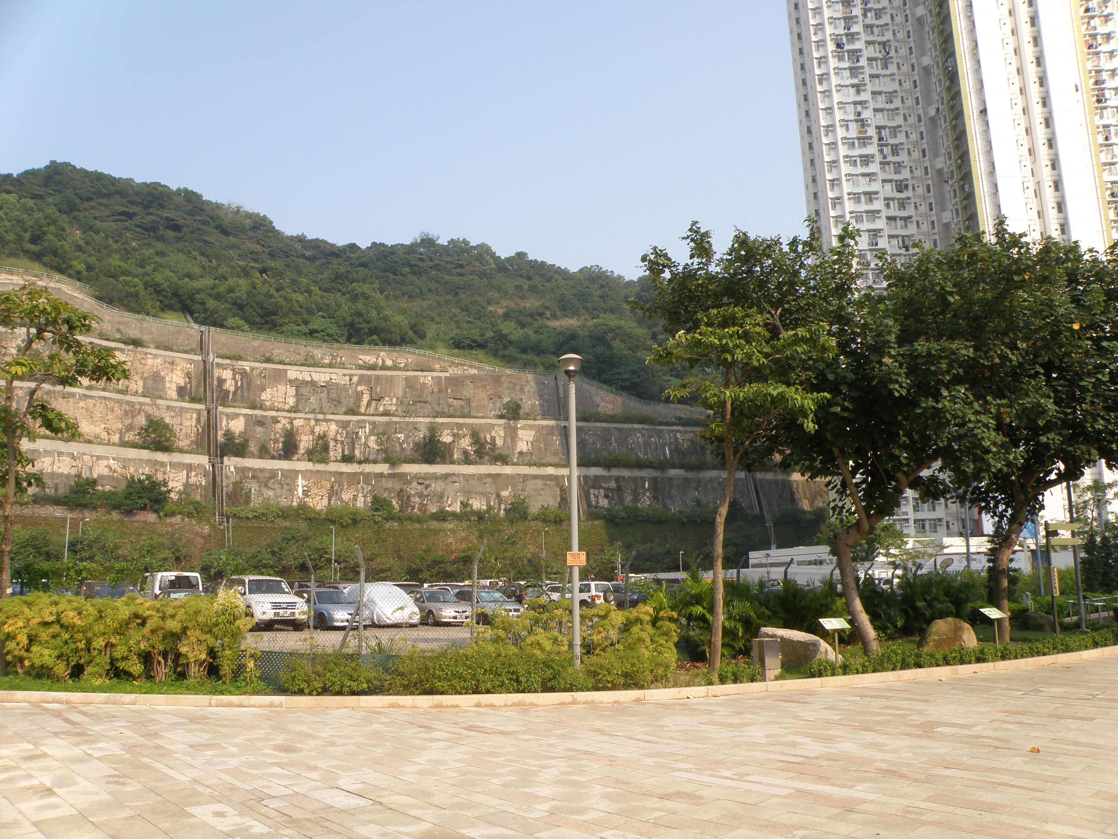 Choi Fook Estate phase 3 in Kowloon Bay, Hong Kong.